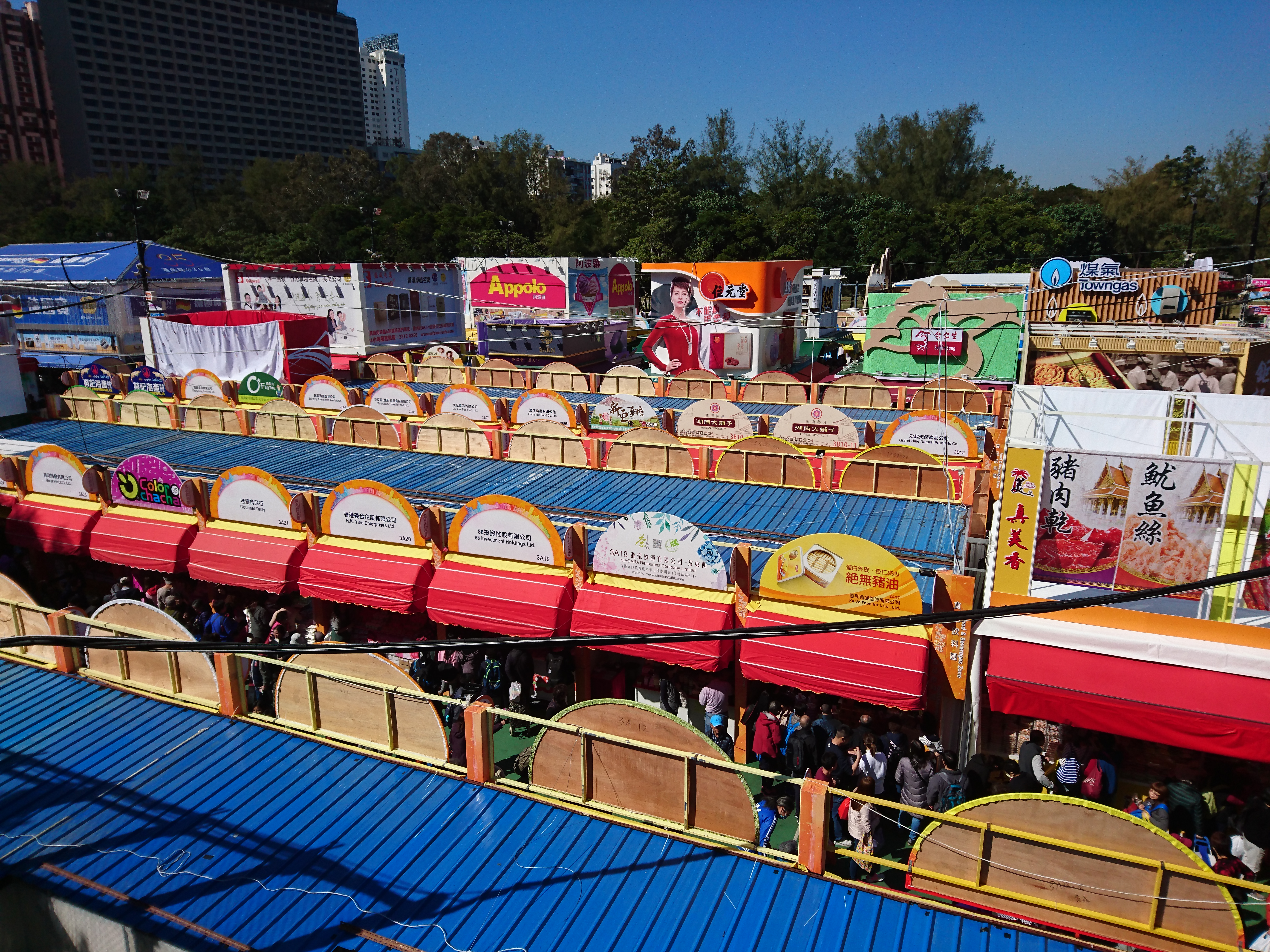 Exhibition booths of Hong Kong Brands and Products Expo 2017